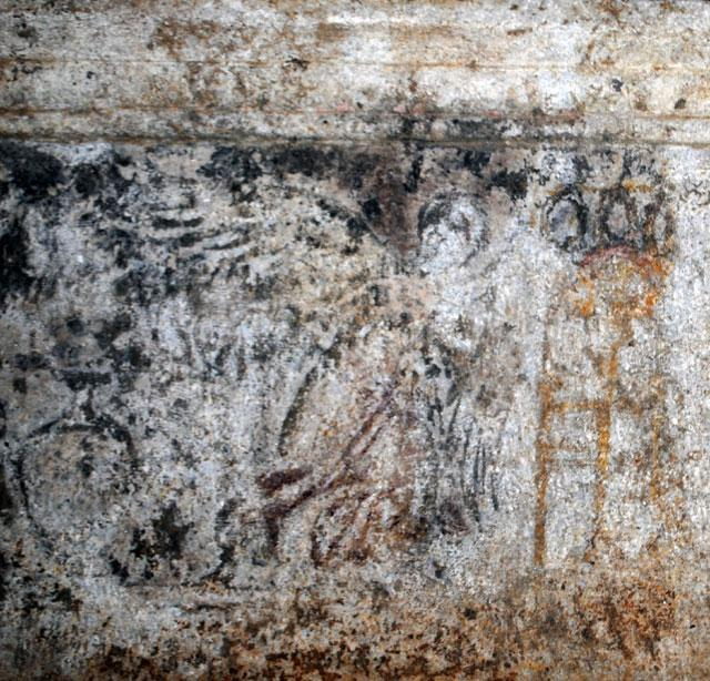 Winged figure, 2nd chamber, Amphipolis tomb